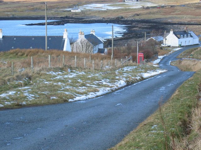 Ullinish. Looking north at the houses of Ullinish on the shore of Loch Bracadale.